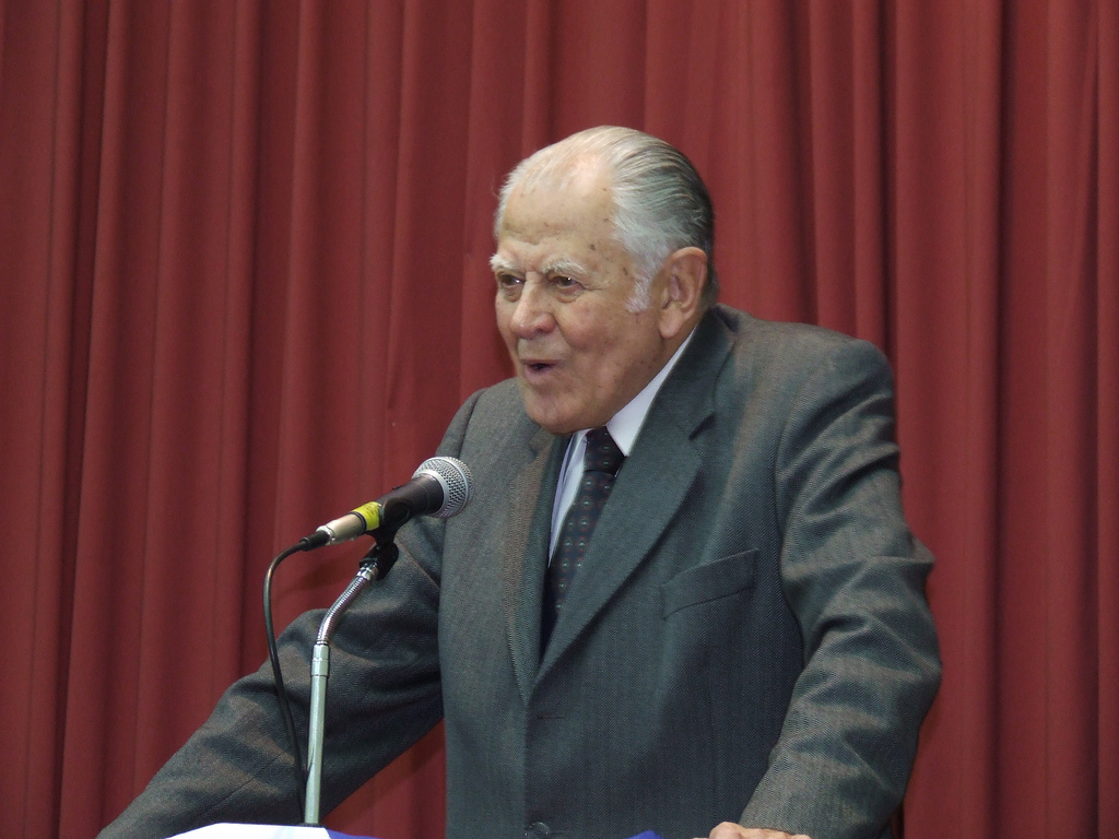 Patricio Aylwin